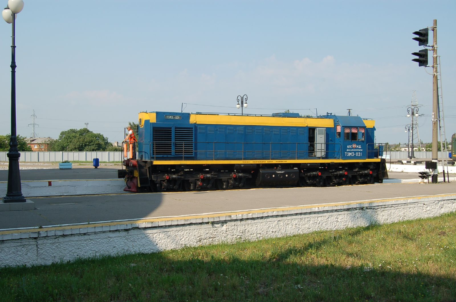 Type TEM3-021 diesel locomotive, Kaliningrad.